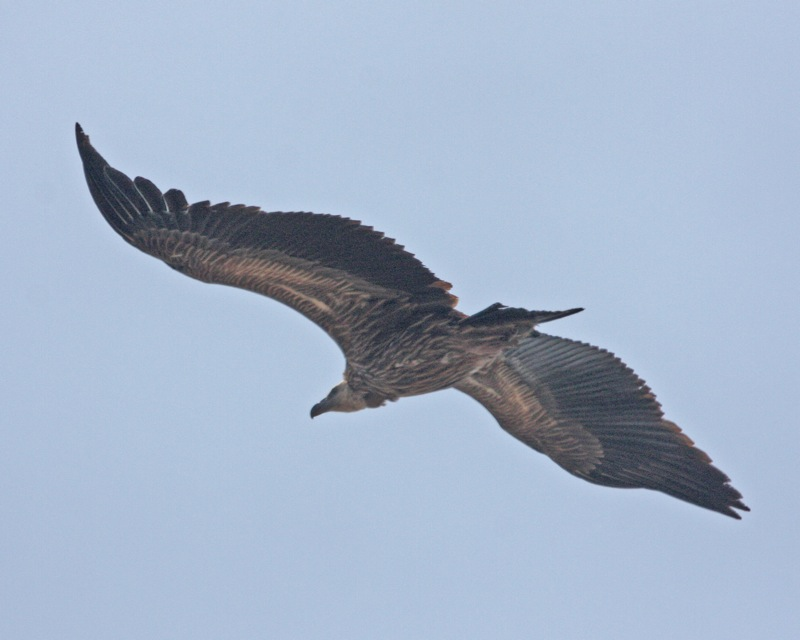 Himalayan Griffon Vulture in Pokhara